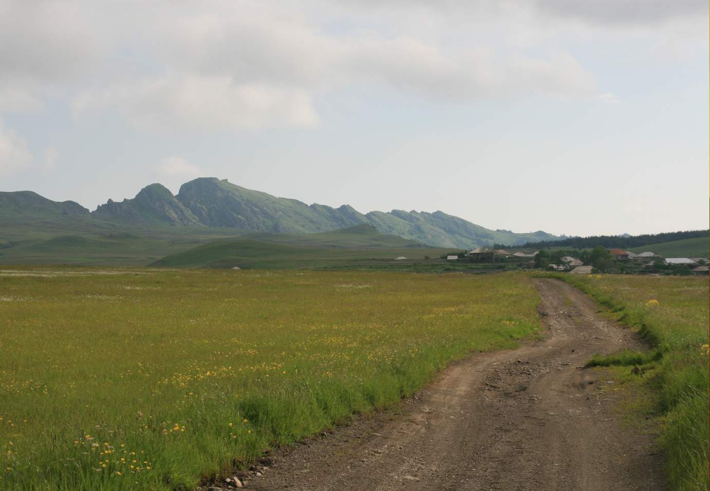 Kldekari as seen from vill. Choliani (Чолян / Чолмани / ჩოლმანი)